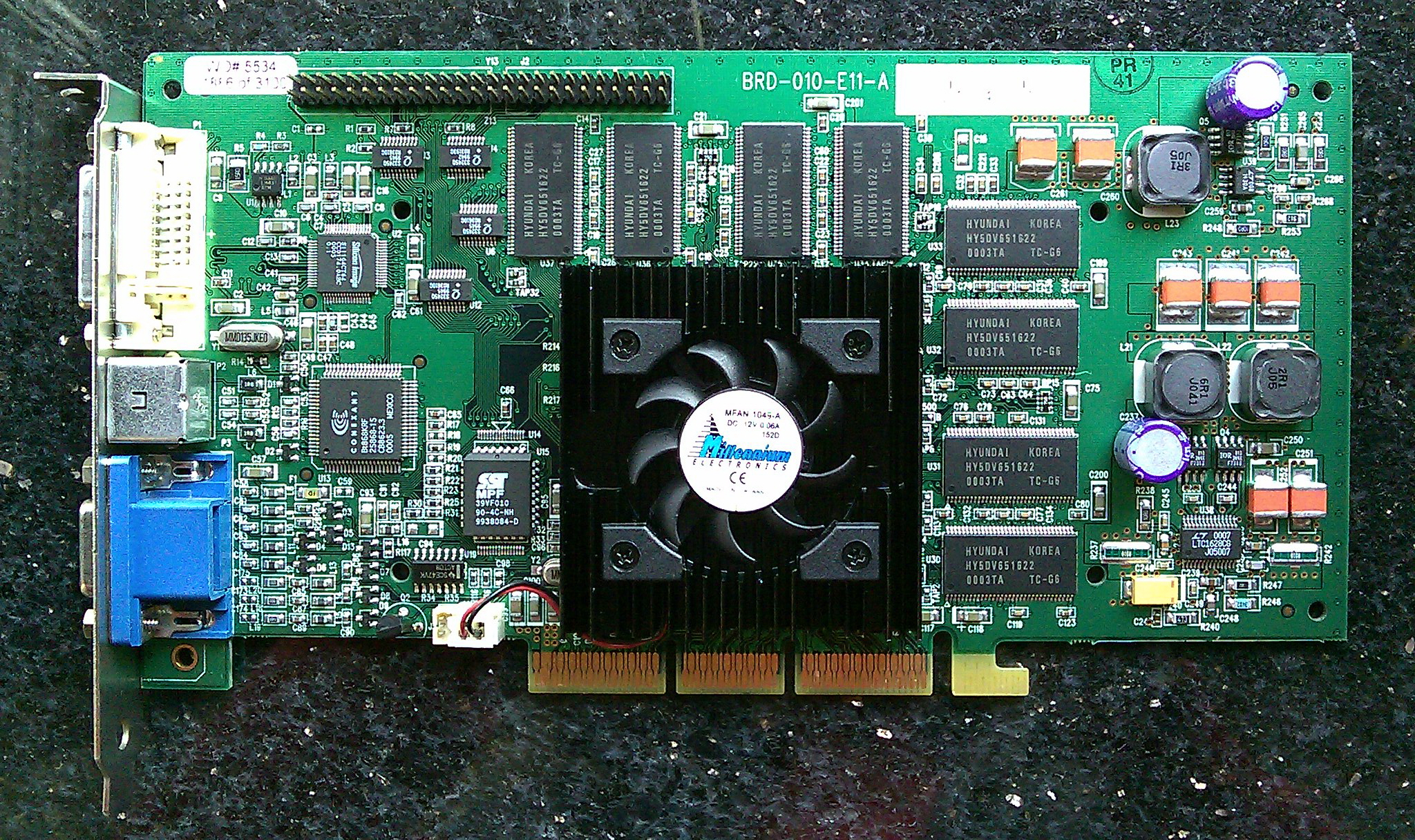 SGI VPro VR3 (BRD-010-E11-A) graphic card